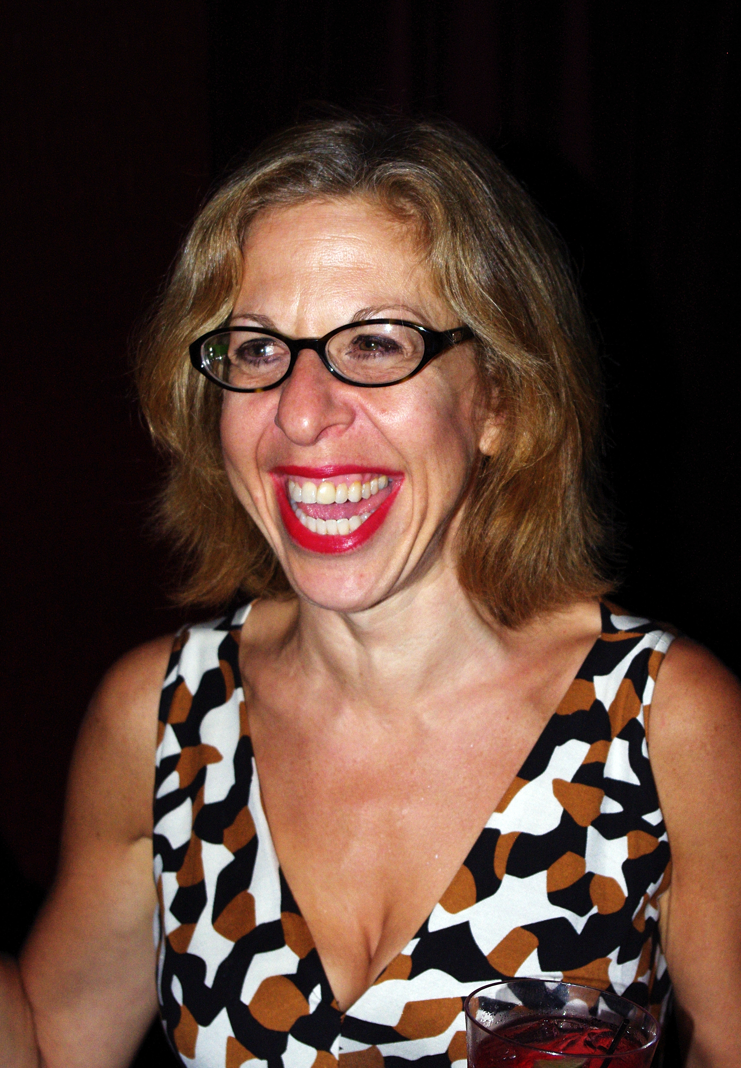 Jackie Hoffman at the Copacabana in New York for the launch of Michael Musto's new book, Fork on the Left, Knife in the Back.